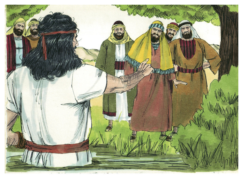 Biblical illustration of Gospel of Matthew Chapter 3